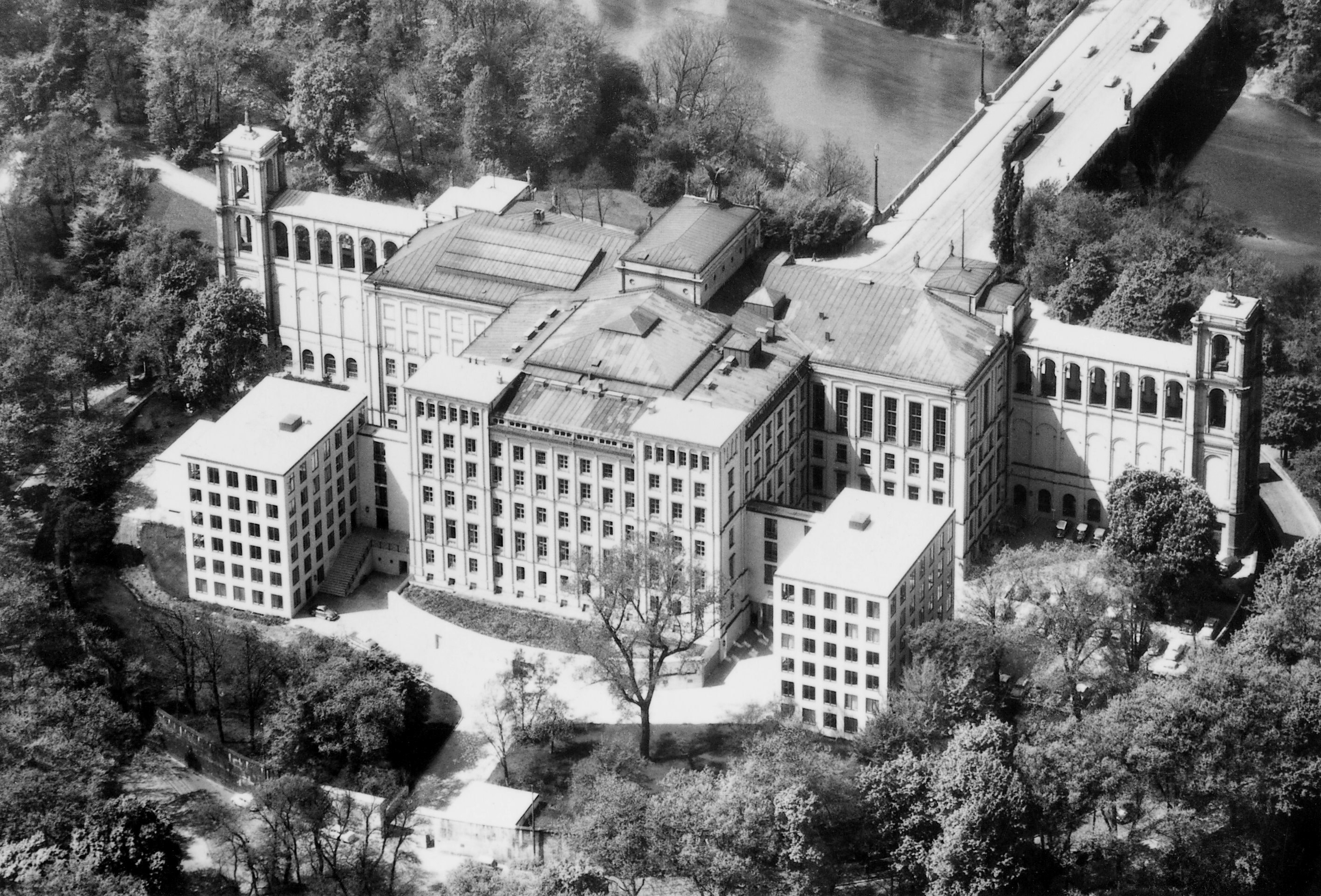 The Maximilianeum with the new buildings north and south 1961 | Image archive of the Bavarian State Parliament